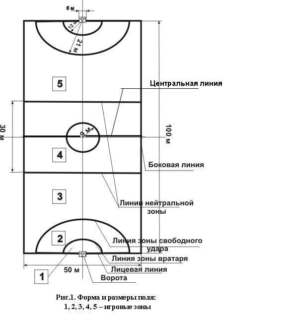 Picture contain all Rushball game zones